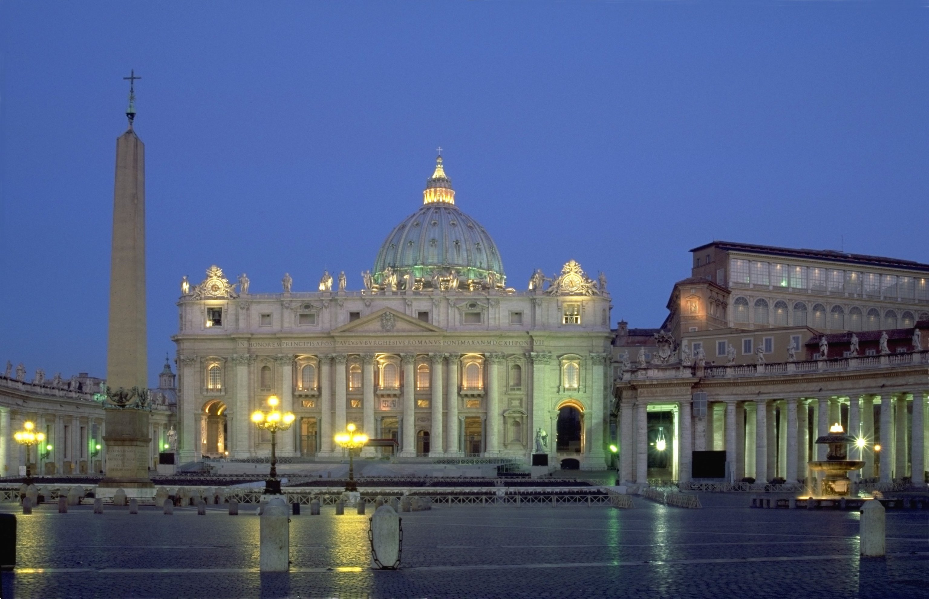 St. Peter's Basilica at Early Morning